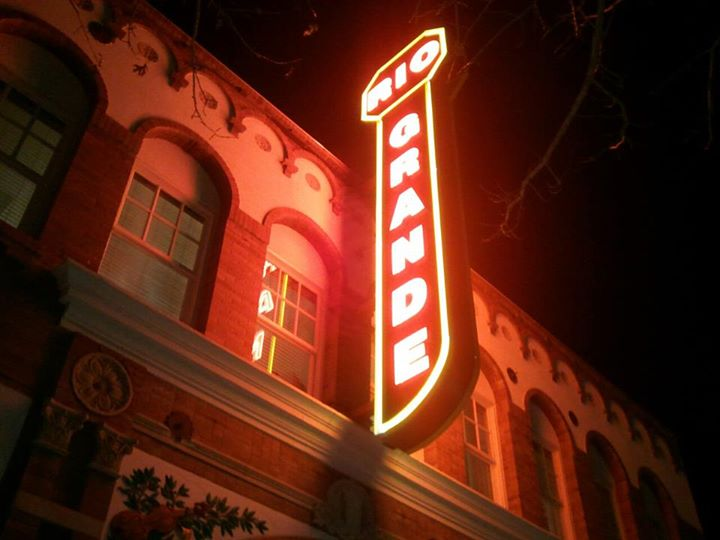 Downtown Las Cruces at night